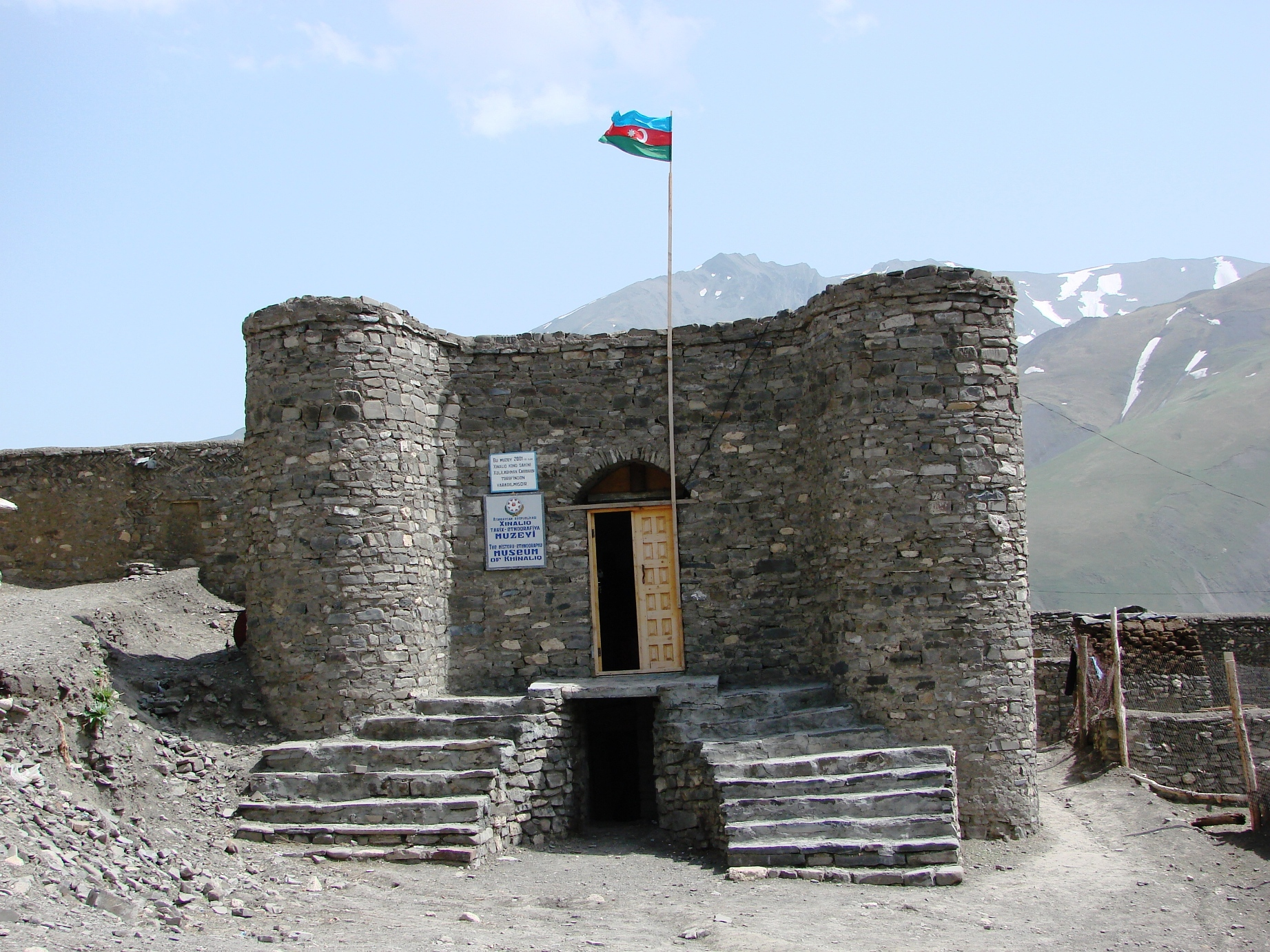 The building of museum in Khinaliq, Azerbaijan